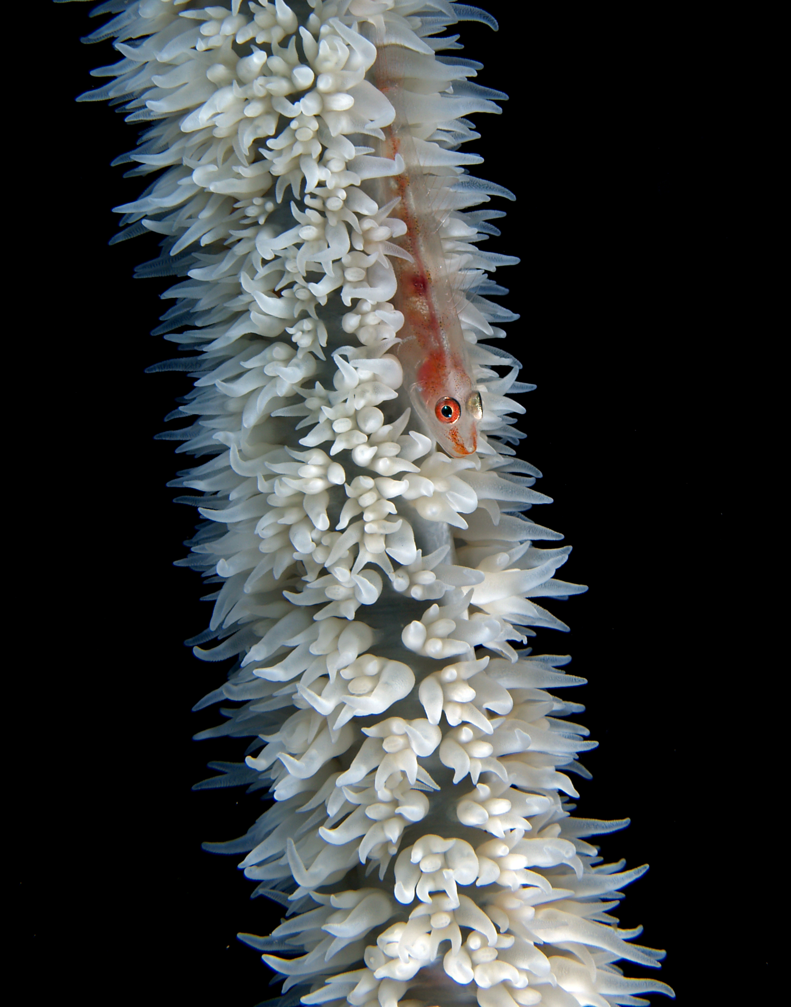 Whip coral dwarf goby, (Bryaninops yongei) on a whip coral (Cirrhipathes sp.) from East Timor.